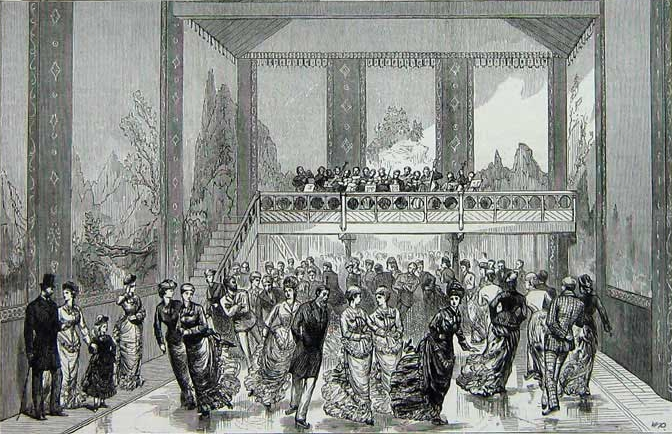 Interior of the Glaciarium Ice Rink, on the Kings Road in Chelsea, London, in 1876. The first mechanically frozen ice rink.